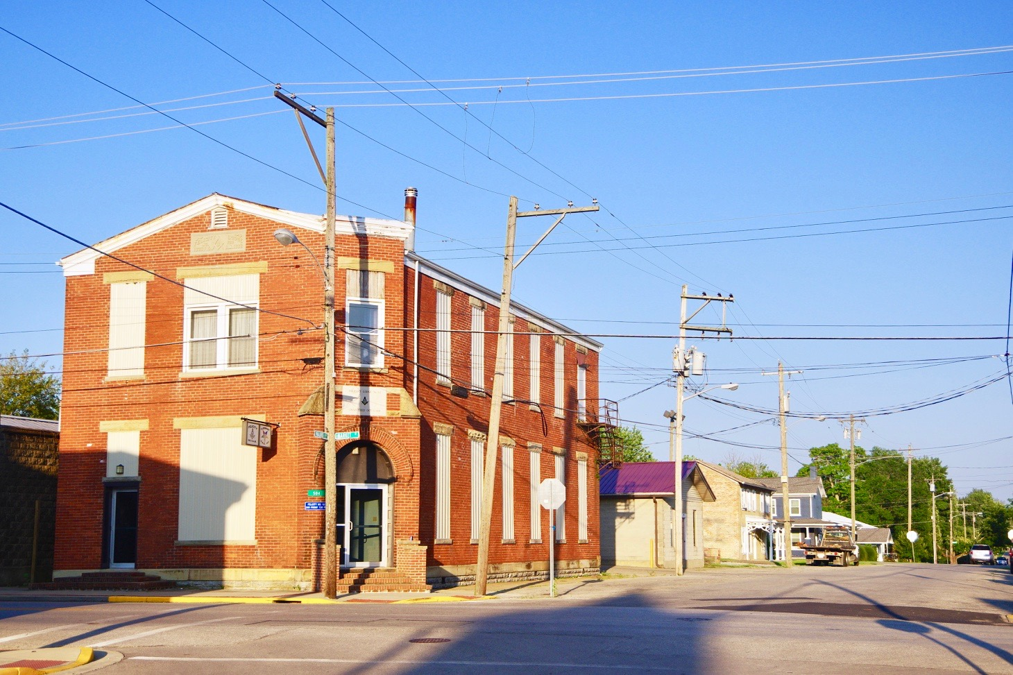 View along Walnut Lane in Felicity, Ohio, United States. The Felicity Lodge building (Felicity Lodge #102) is on the left.